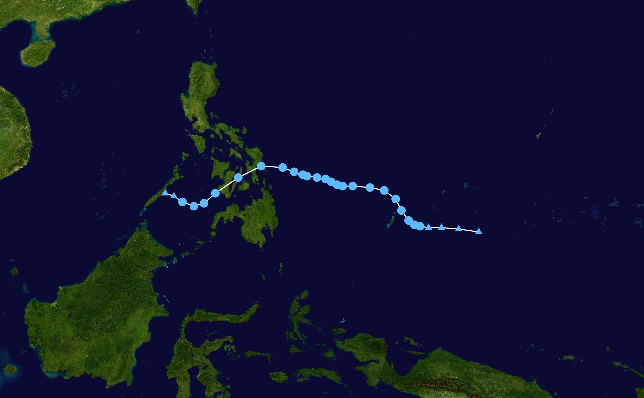 Track map of Tropical Depression Usman of the 2018 Pacific typhoon season. The points show the location of the storm at 6-hour intervals. The colour represents the storm's maximum sustained wind speeds as classified in the Saffir–Simpson scale (see below), and the shape of the data points represent the nature of the storm, according to the legend below. Saffir–Simpson scale Tropical depression≤38 mph≤62 km/h Category 3111–129 mph178–208 km/h Tropical storm39–73 mph63–118 km/h Category 4130–156 mph209–251 km/h Category 174–95 mph119–153 km/h Category 5≥157 mph≥252 km/h Category 296–110 mph154–177 km/h Unknown Storm type Tropical cyclone Subtropical cyclone Extratropical cyclone / Remnant low / Tropical disturbance / Monsoon depression